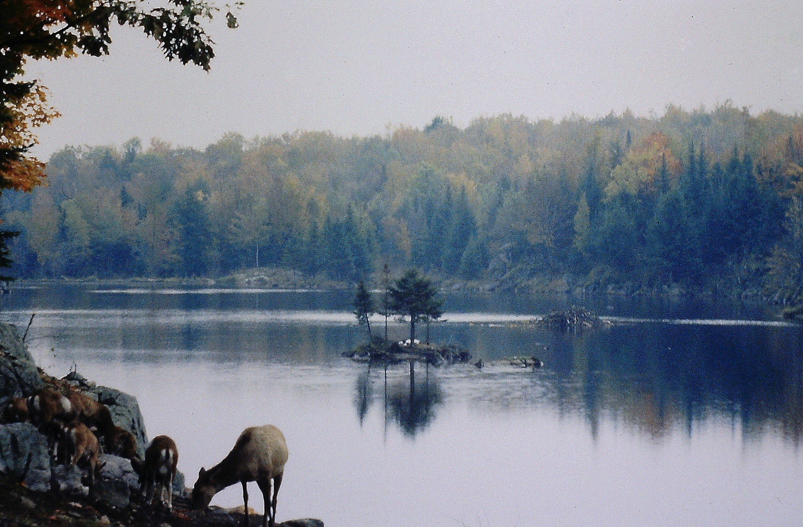 Omega Parc